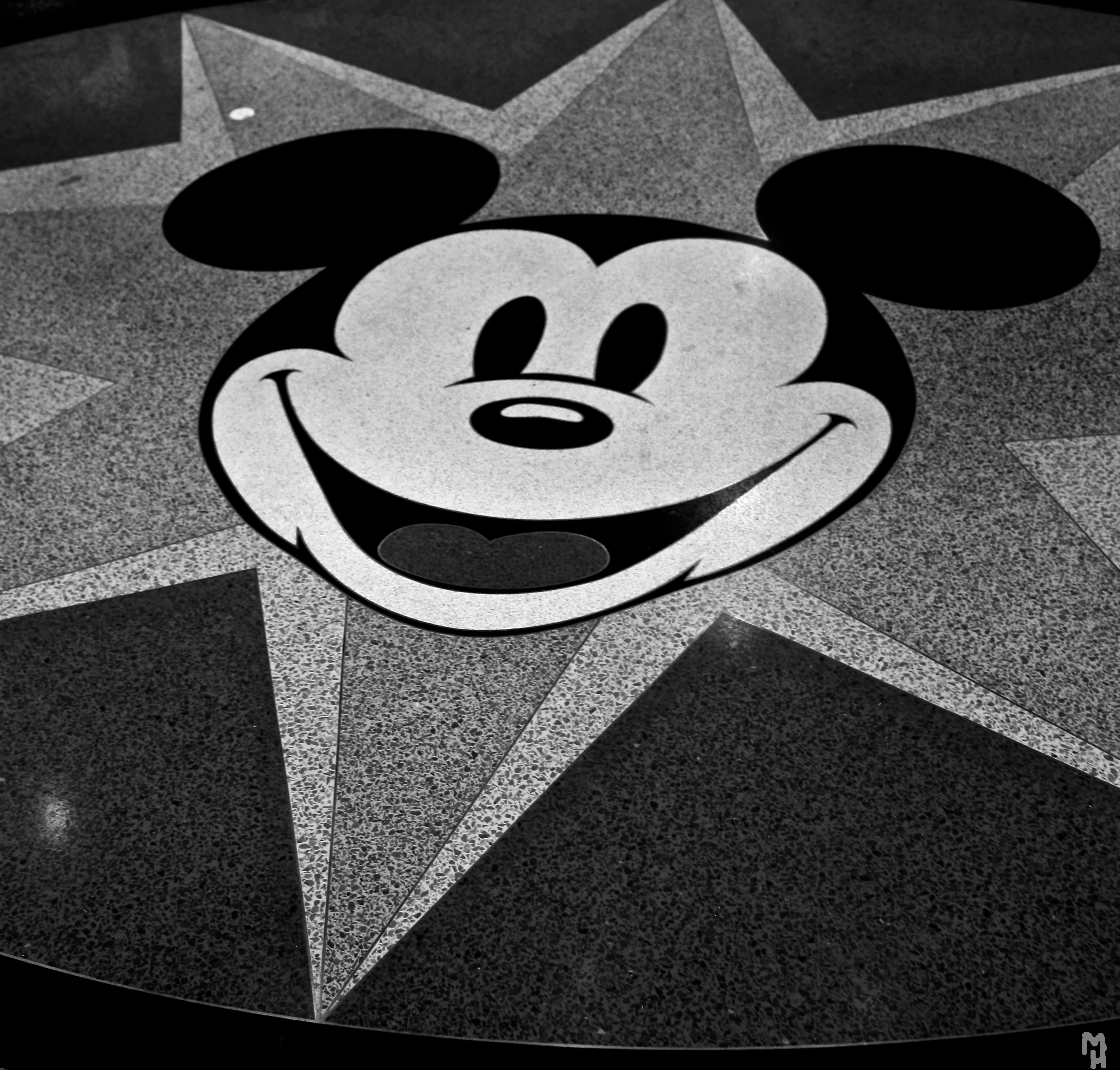 Famous mouse